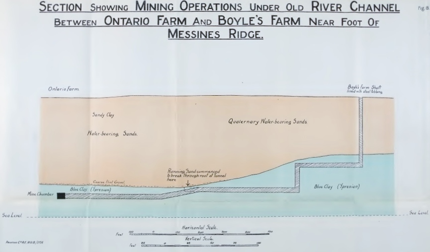 Section showing mining at Messines Ridge, Ontario Farm–Boyle's Farm